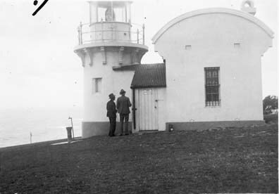 Richmond River Light, 1930